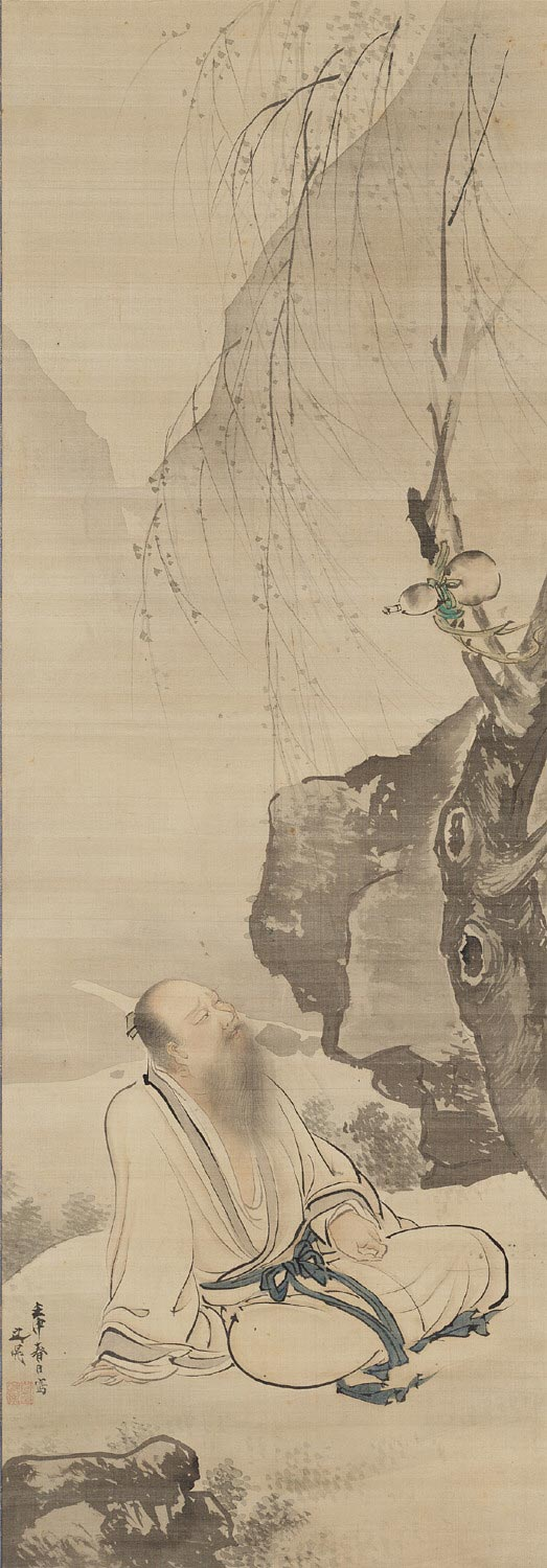 Ink on paper; mounted as a hanging scroll 38 1/2 x 13 5/8 inches (97.8 x 34.6 cm) Mount: 75 1/2 x 19 inches (191.8 x 48.3 cm)